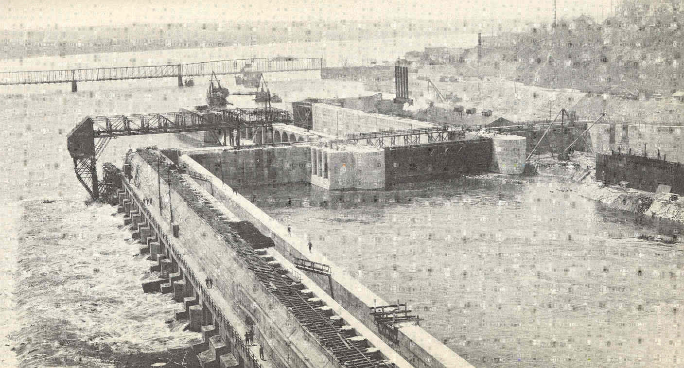 Posdition of the Lock with reference to the lower end of the power house Subject: Keokuk Dam (Ohio and Illinois), Keokuk-Hamilton Dam (Ohio and Illinois), Dams Geographic Subject: United States--Illinois--Keokuk Dam, United States--Ohio--Keokuk Dam Tag: Dams